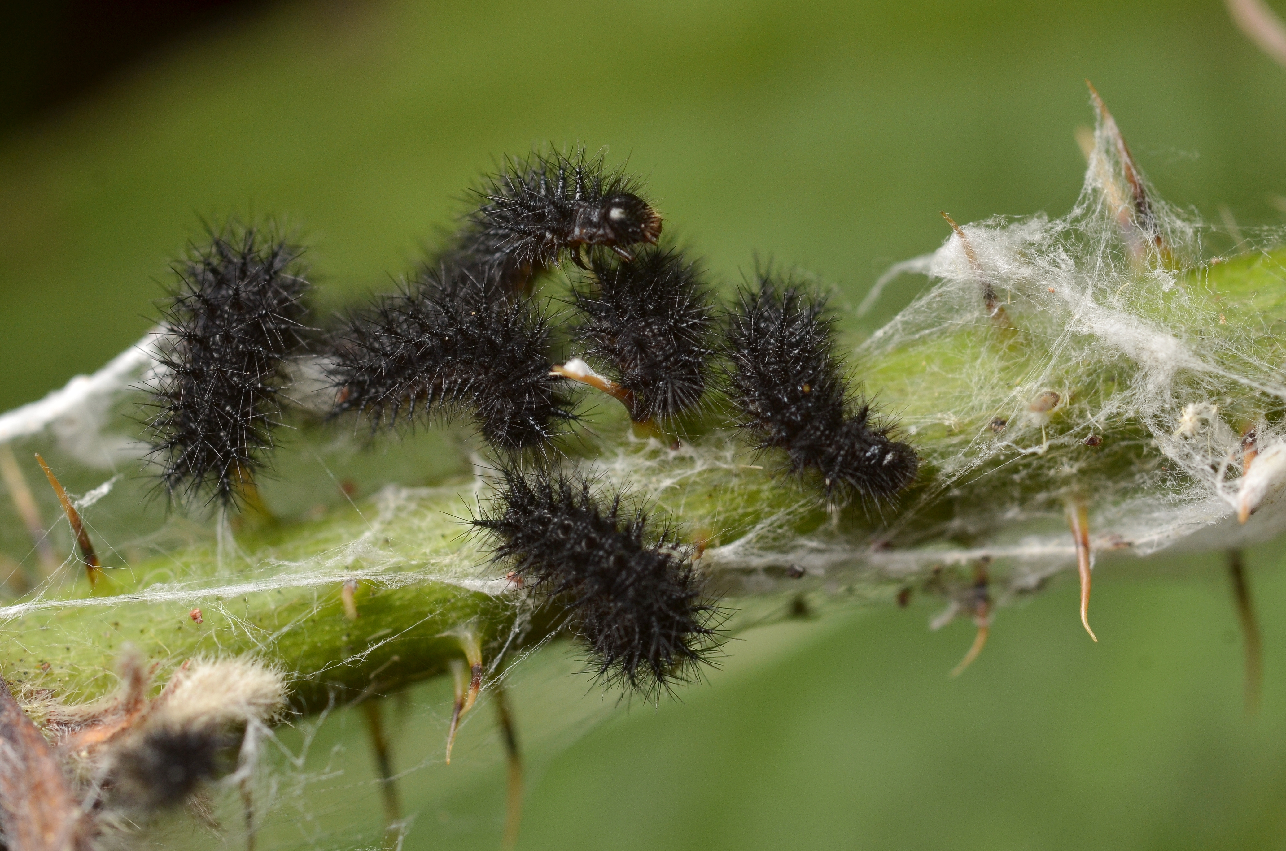 Young caterpillars of Euphydryas aurinia ready to overwinter in their web